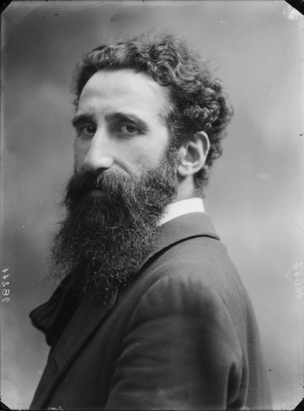 Felice Boghen photographed by Mario Nunes Vais